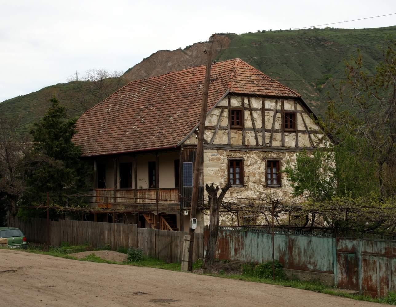 A 19th-century German house in Asureti (former Elisabethal), Georgia